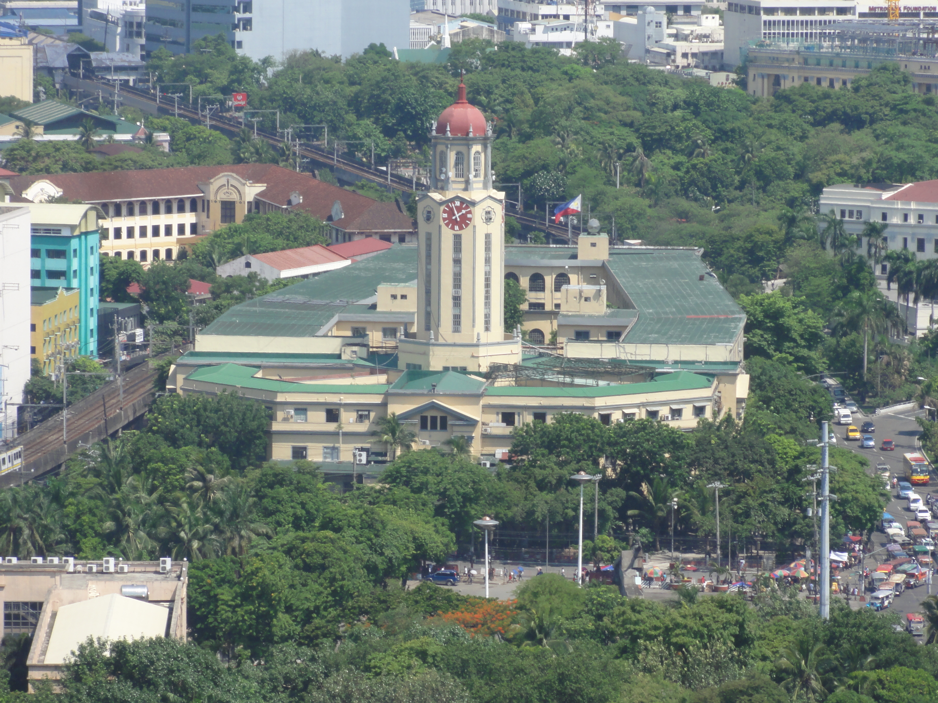 Top view of the City Hall along Padre Burgos Avenue, Ermita, Manila as of June 2015.